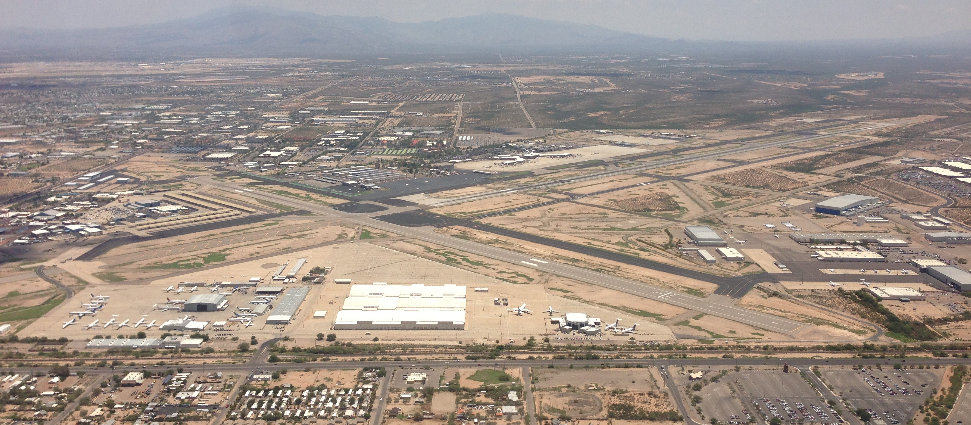 An aerial view of Tucson International Airport